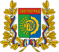 Svetlograd (Stavropol krai), proposed coat of arms (1990s)